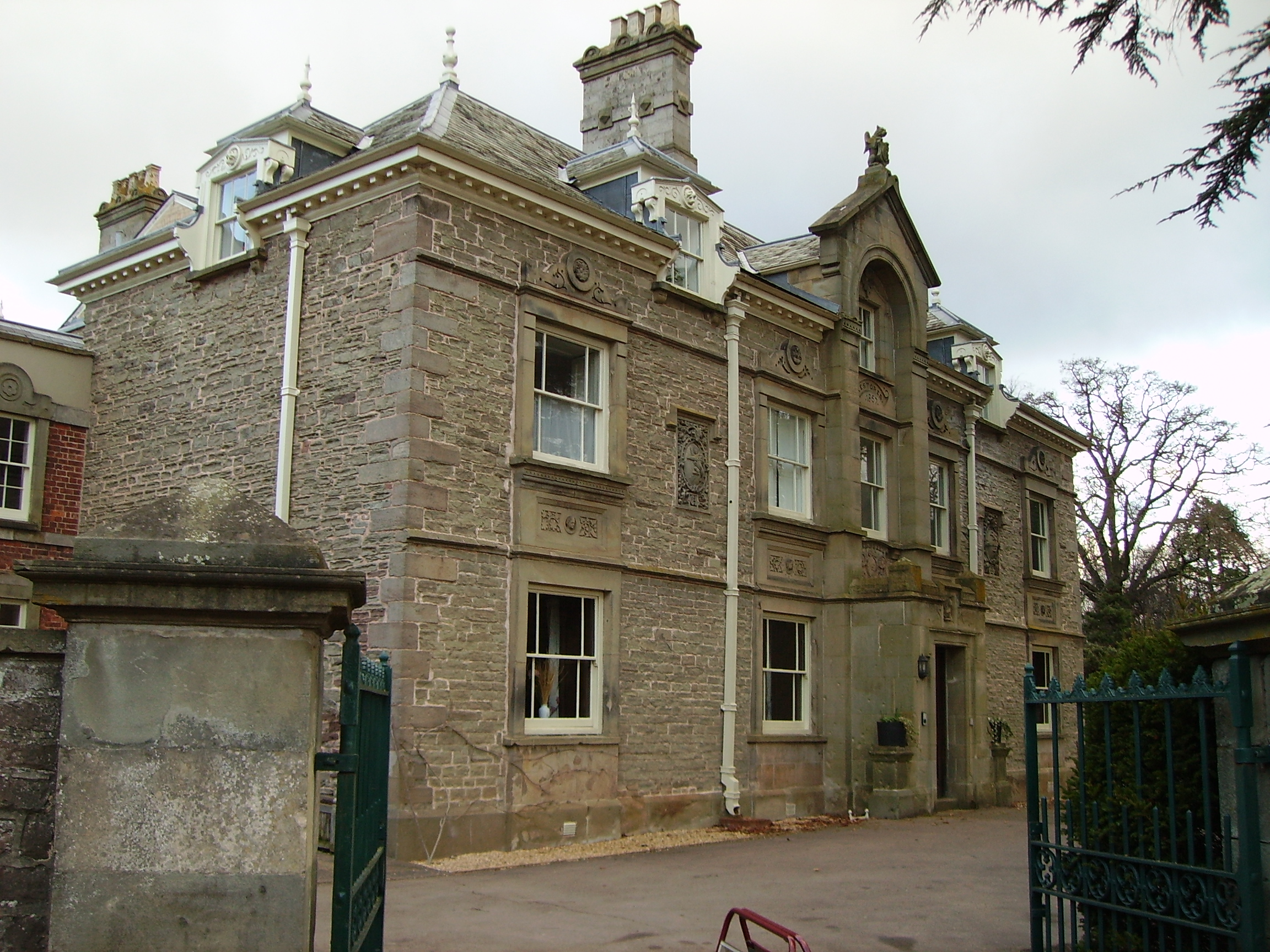 Drybridge House, Drybridge Street, Monmouth, Wales, Great Britain